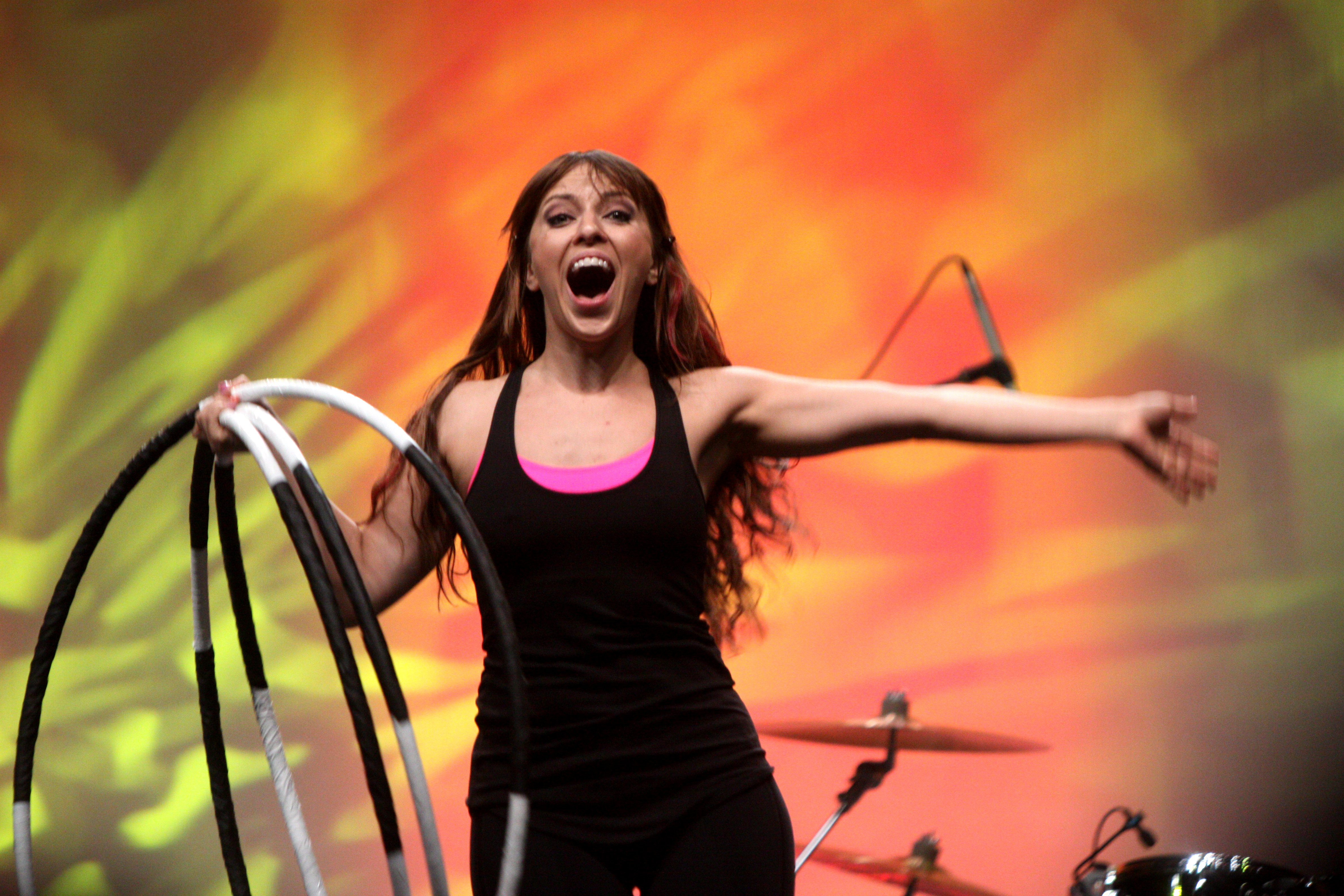 Olga Kay performing at VidCon 2012 at the Anaheim Convention Center in Anaheim, California.